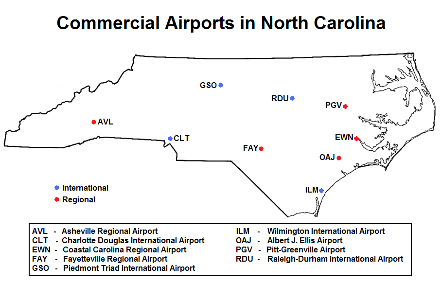 Self-created graphical representation.Self-created graphical representation.